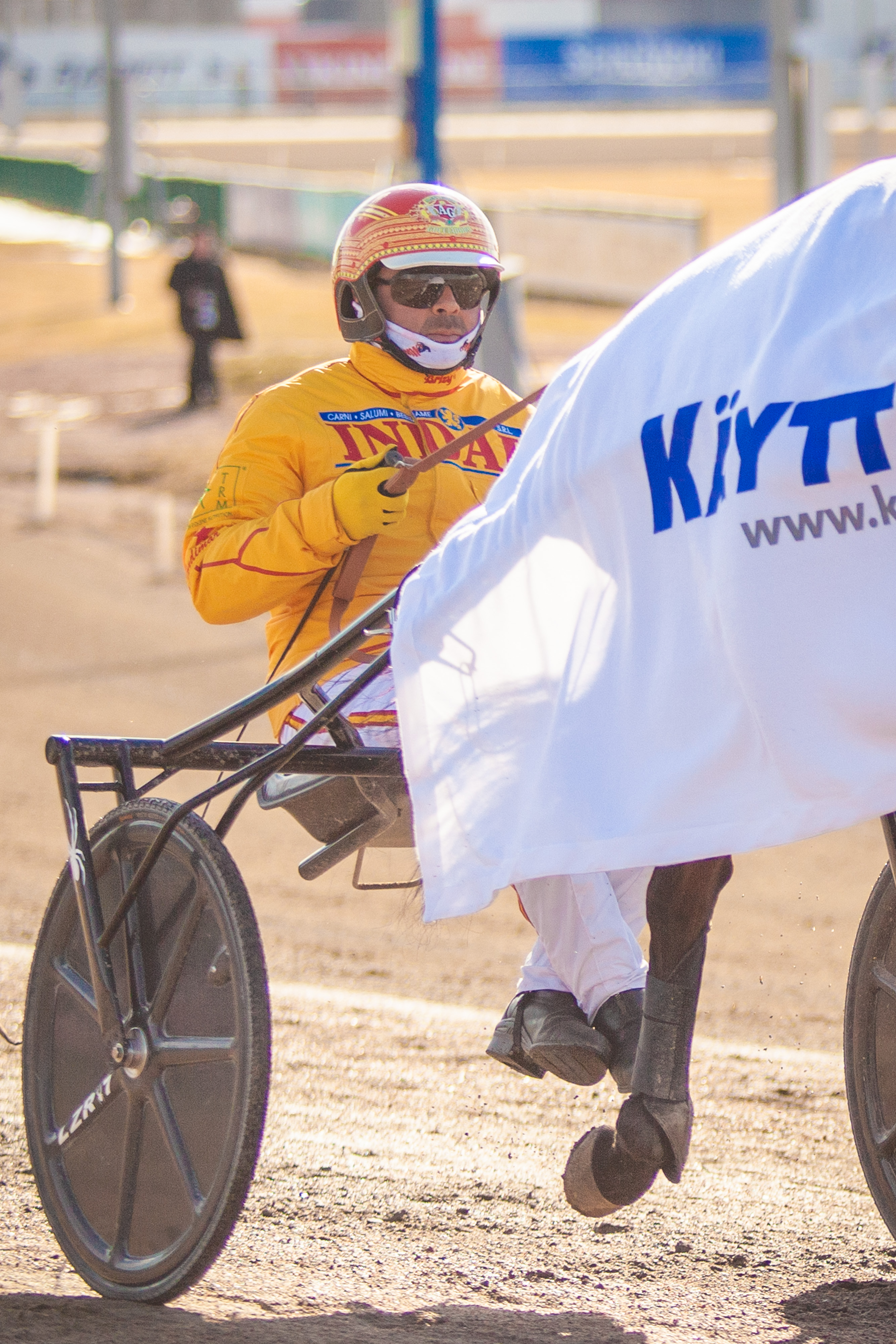 Alessandro Gocciadoro at Seinäjoki 13.4.2019